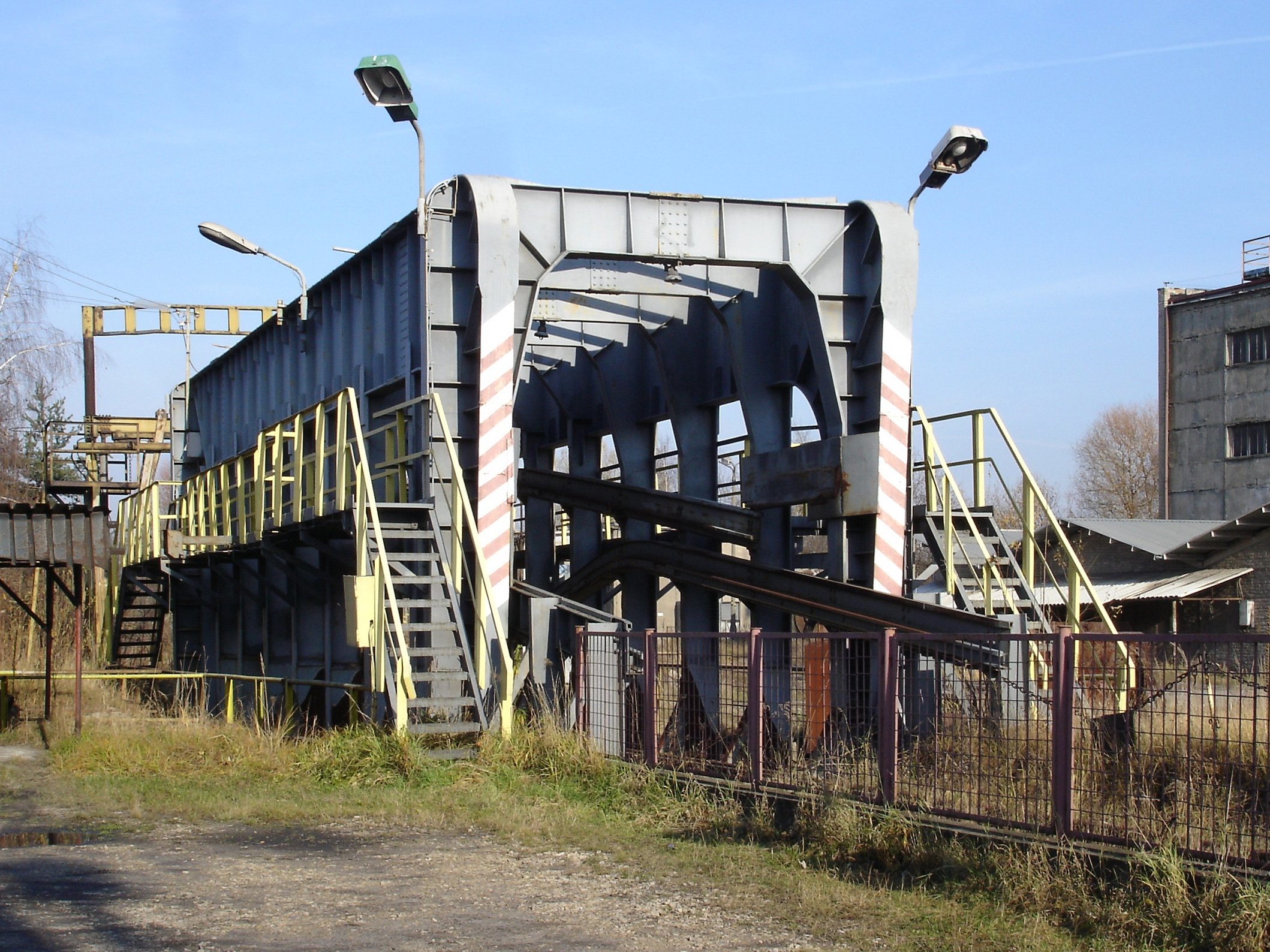 Sand-filling (stowing) bridge near pit Witczak, coal mine Centrum, Bytom, Poland.